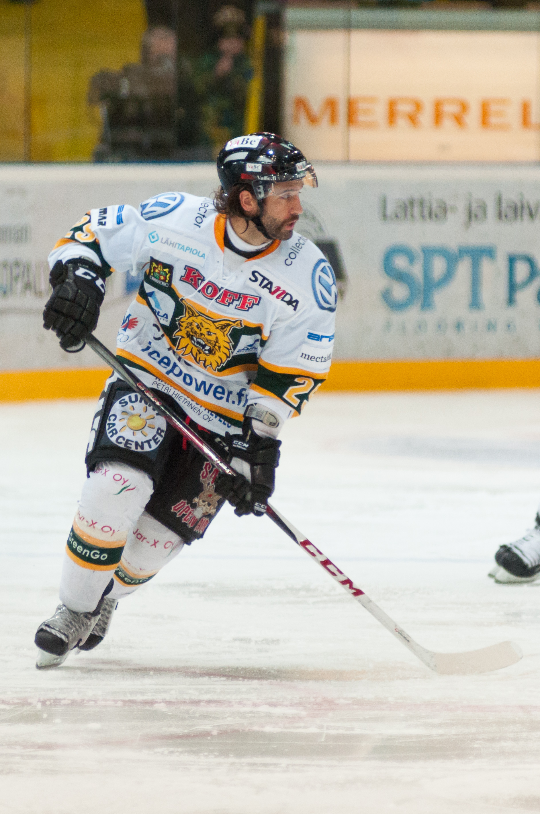 Canadian ice hockey center Maxime Talbot playing for Tampereen Ilves against SaiPa Lappeenranta in Lappeenranta, Finland.